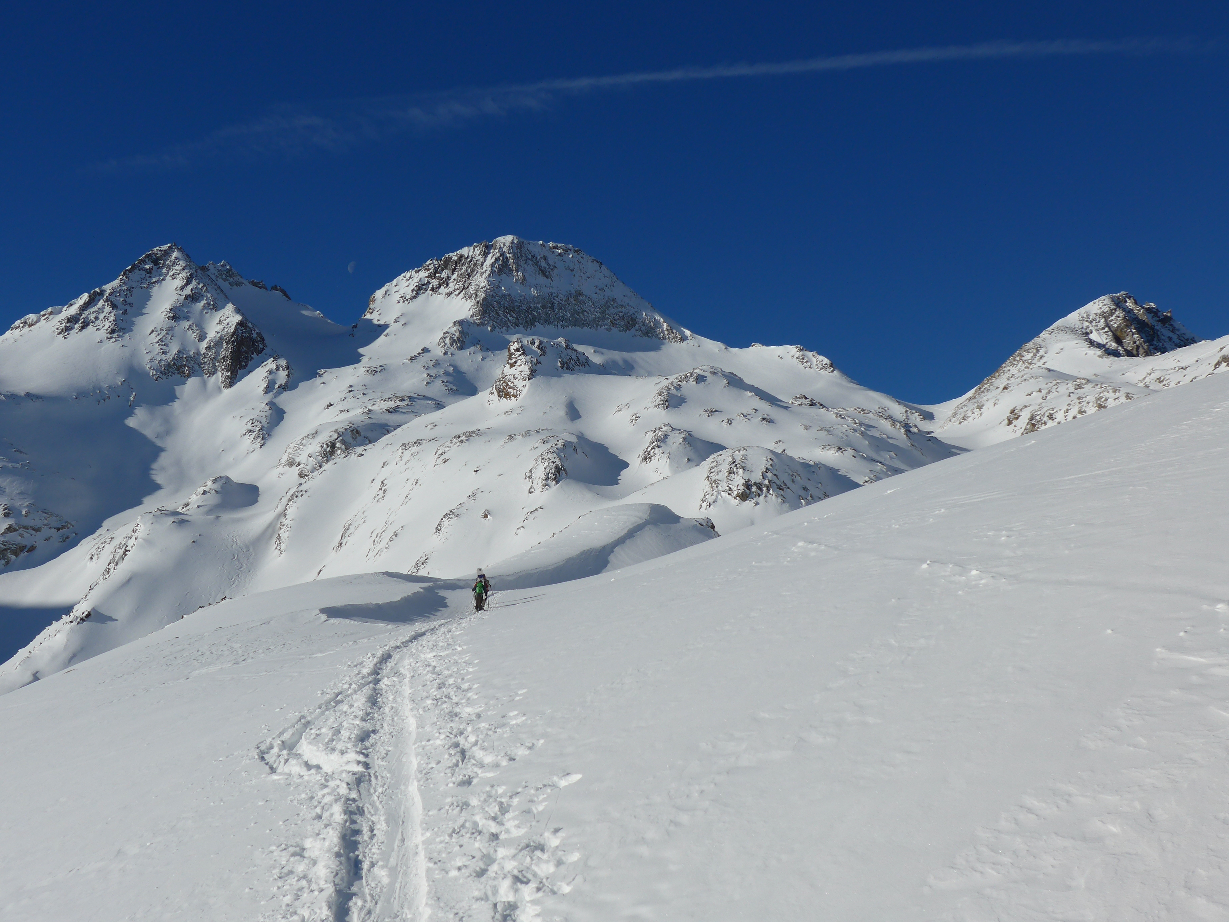 Chli Leckihorn, Gross Leckihorn and on the right Stellibodenhorn, taken from northeast, near Rotondo hut